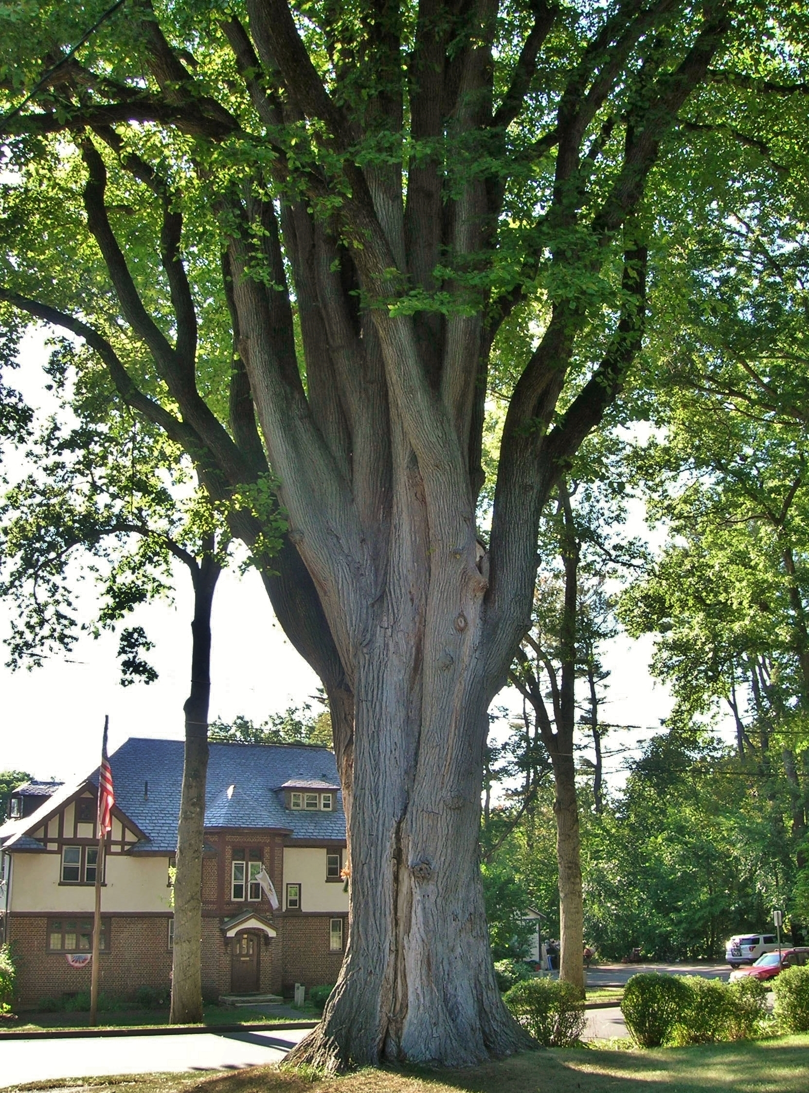 Photograph of the Grayson Elm, a historic American elm tree located in Amherst, Massachusetts.